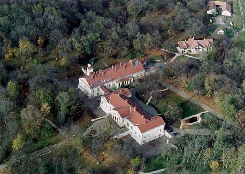 Verseg, Hungary, aerialphotgraphy